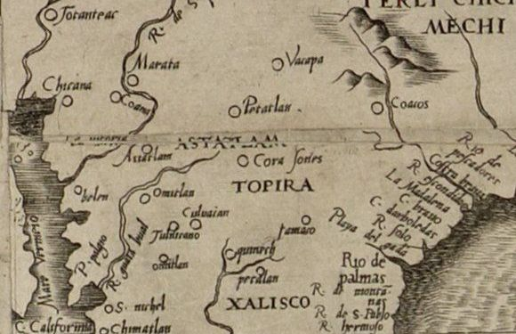 Town of Chicana on the Americae Sive Quartae Orbis Partis Nova Et Exactissima Descriptio (1562)